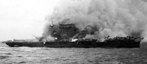 The U.S. Navy aircraft carrier USS Lexington (CV-2) burning on 8 May 1942, as she was being abandoned. The ships standing by include three cruisers and several destroyers. The ship in the right distance is the heavy cruiser USS Chester (CA-27).